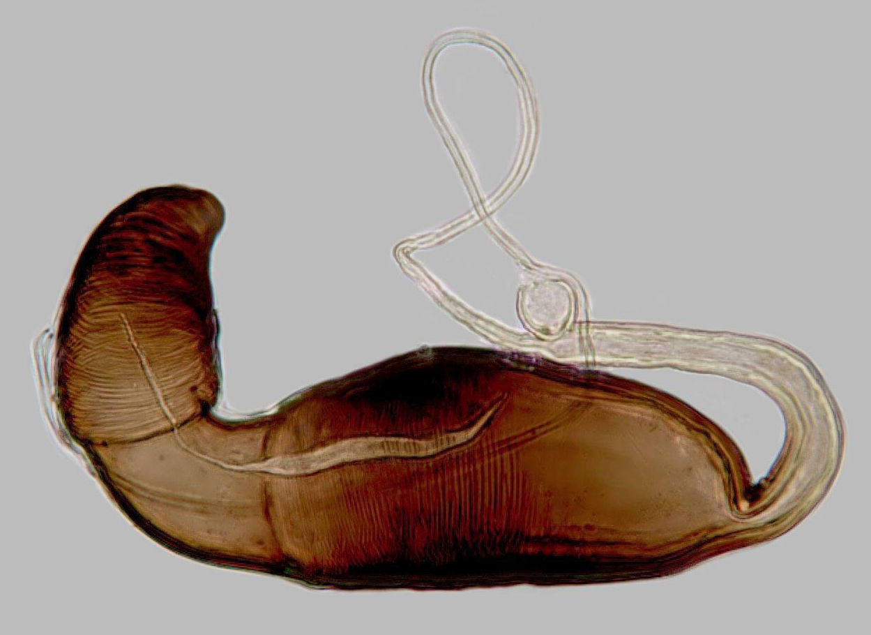 Longitarsus pratensis spermatheca, Harlech, North Wales, March 2011